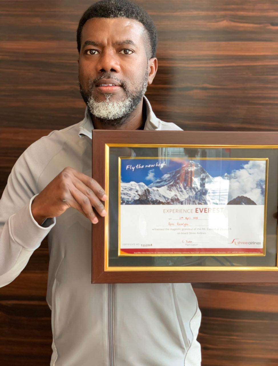 Reno Omokri